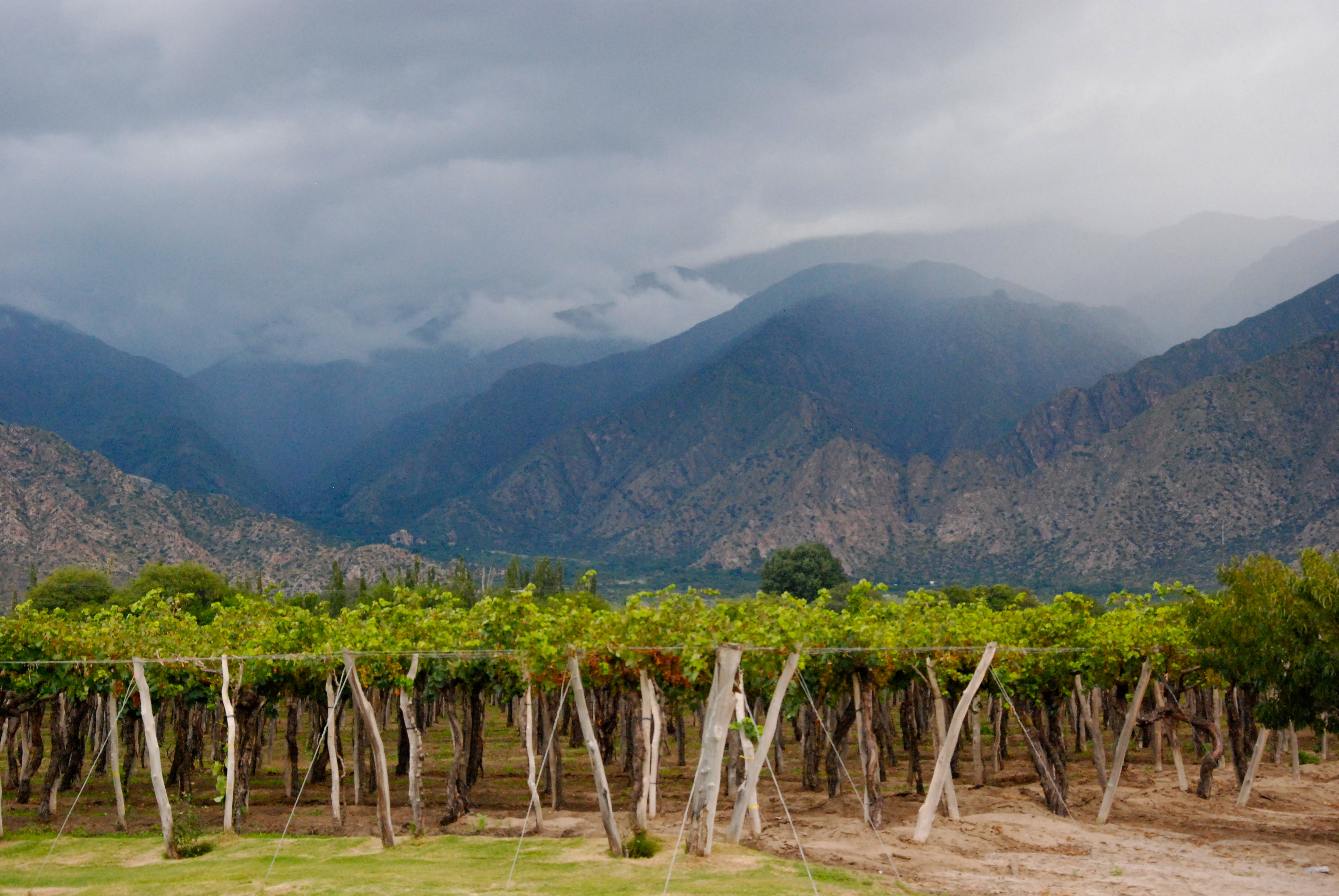 A winery near Cafayate, Salta Province (Argentina).